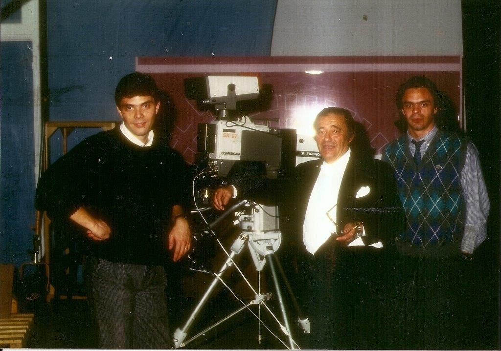 Alejandro y Sebastian Borensztein. Productores de televisión del programa de su padre, Tato Bores.